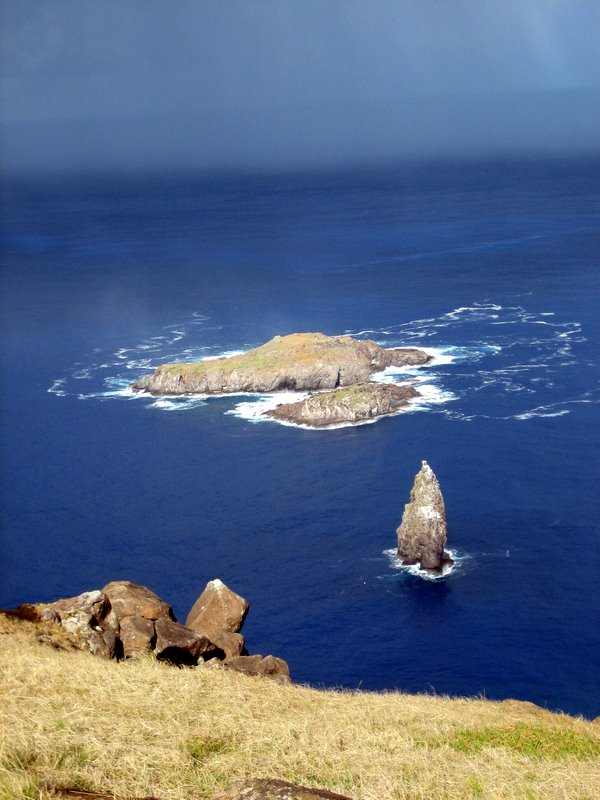 View from the tip of the island. This is the island they used to swim to as part of the Birdman Cult. The islands are Motu Nui, Motu Iti and Motu Kao Kao - just off Cabo Te Manga. The last ceremonies took place in 1866.